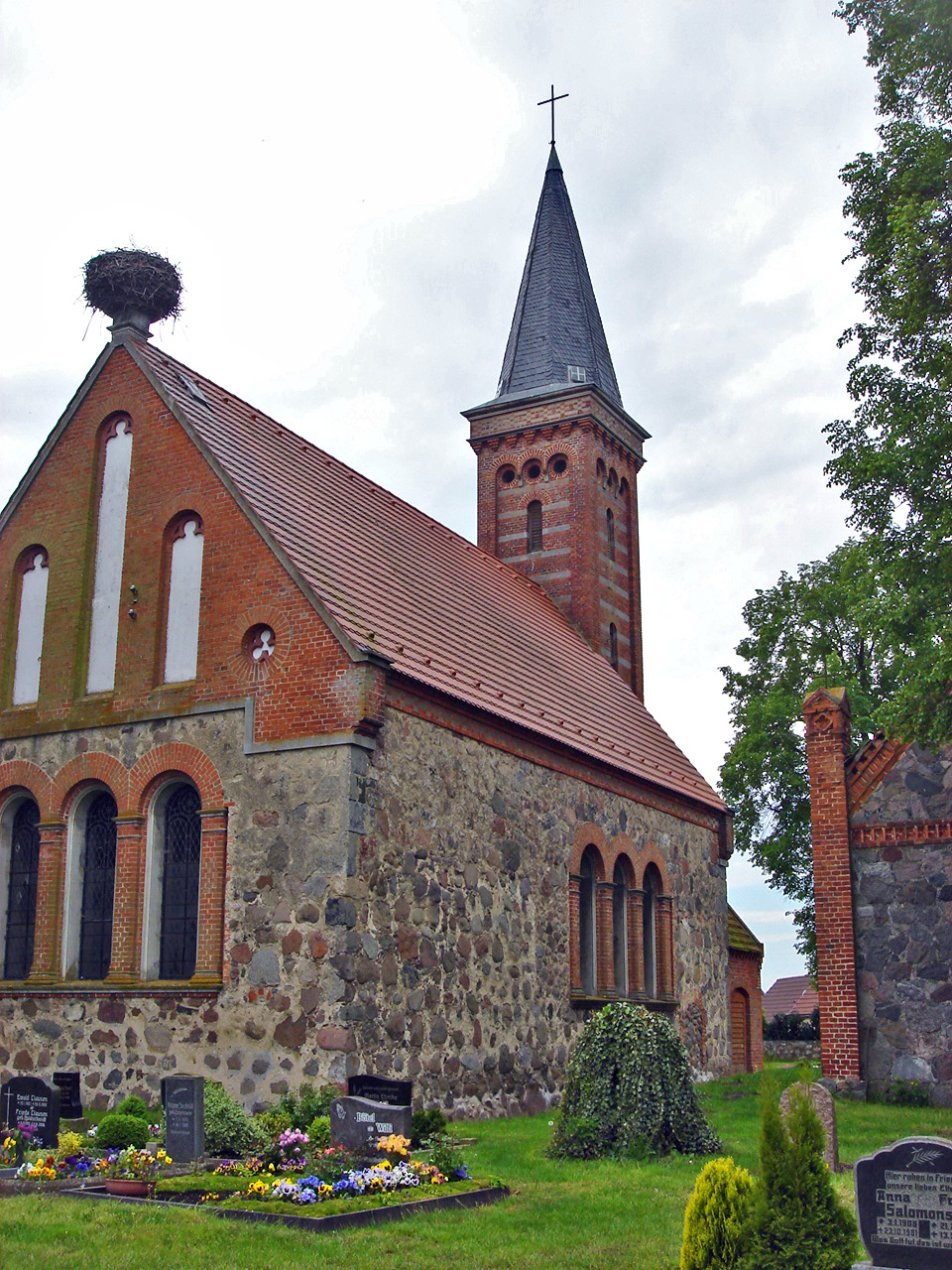 Church of Sadelkow, part of Datzetal. Built in 1380, modified 1866-1870.